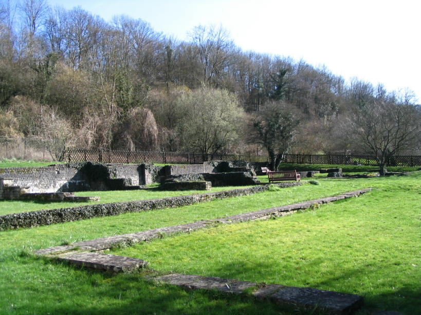 Roman Villa of Nennig Author: me Date: Mar. 2007